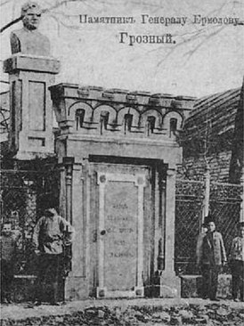 This is a memorial bust of the Russian general Yermolov in Grozny